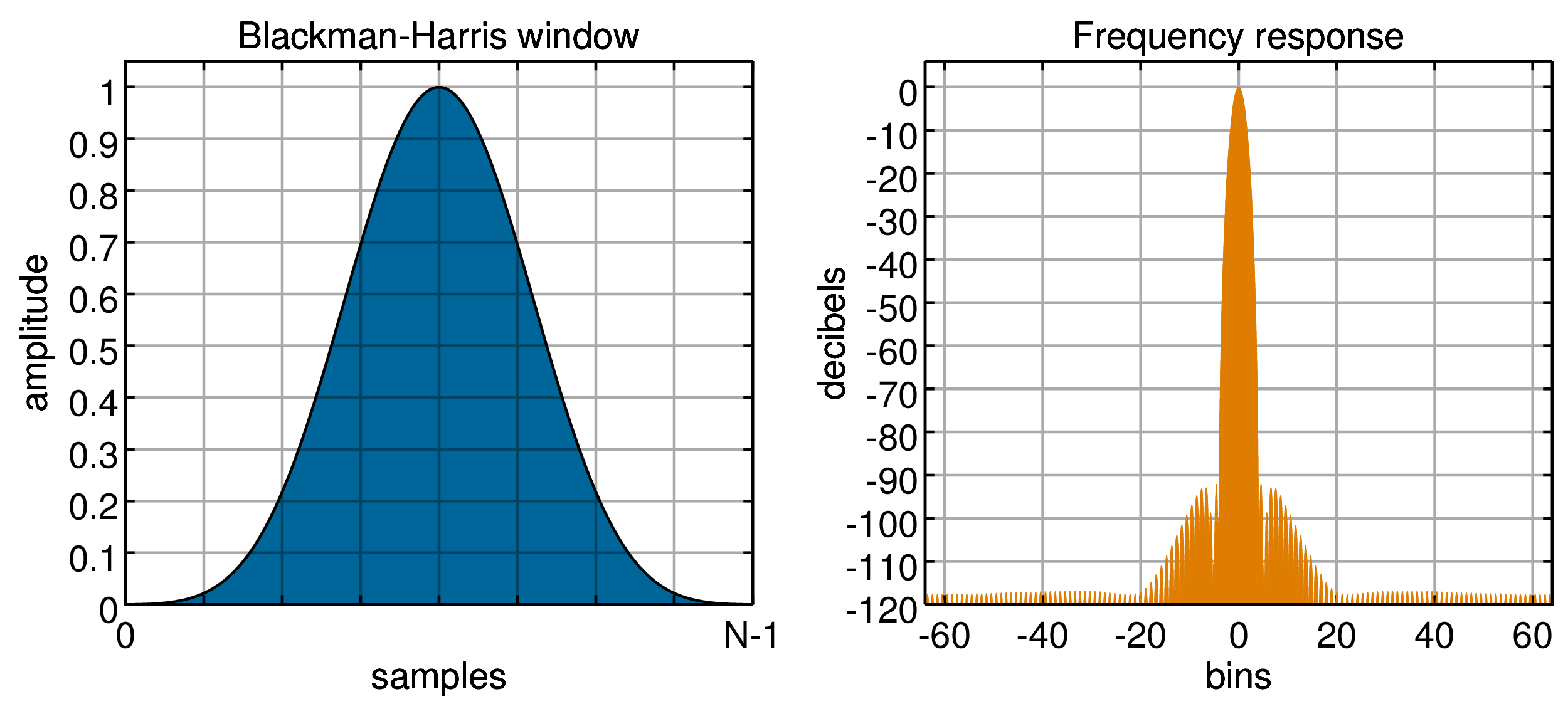 Hann window and frequency response